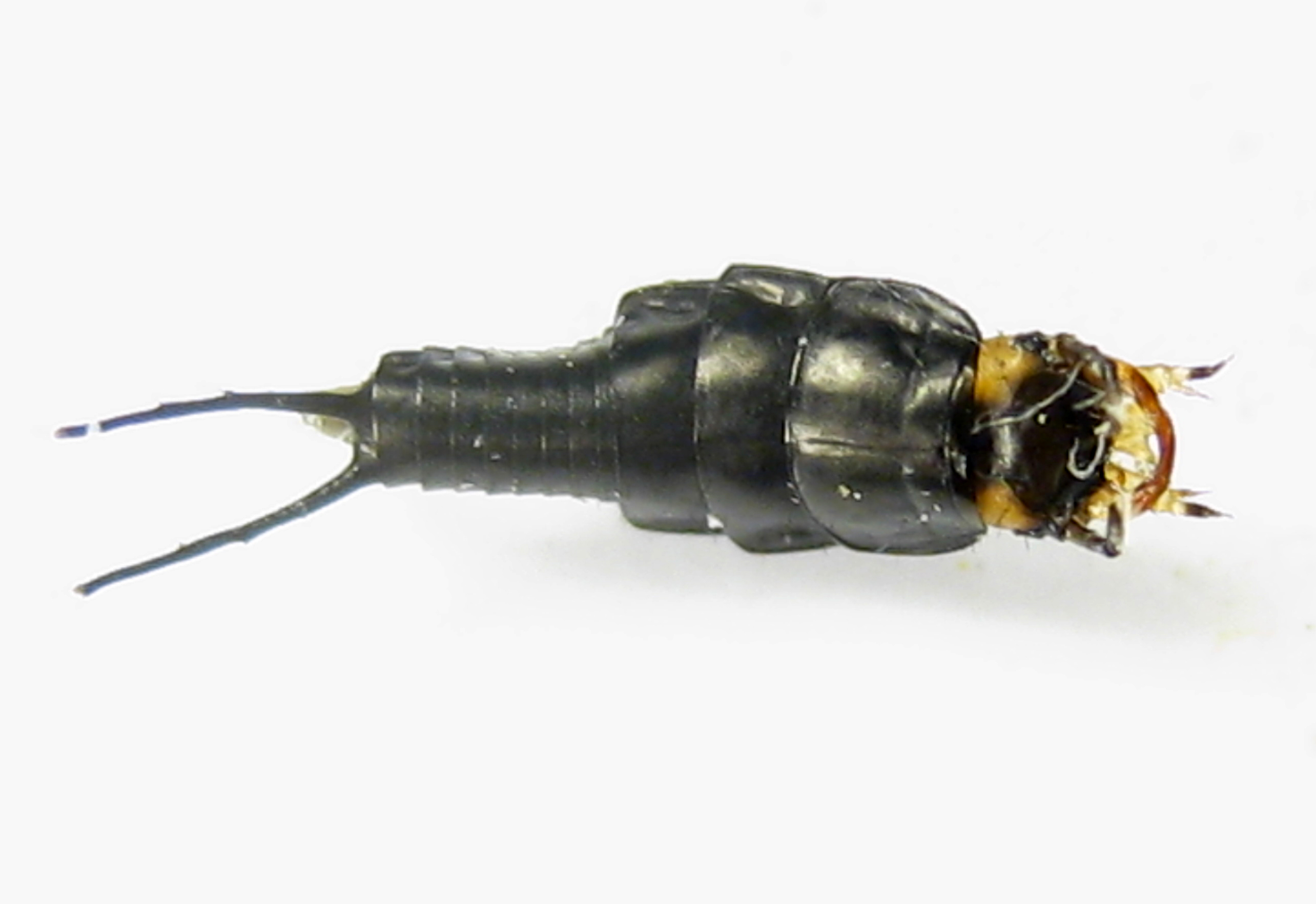 Larva of carabid beetle, Chlaenius sp. Briar Bush Nature Center, Montgomery County, Pennsylvania, USA.